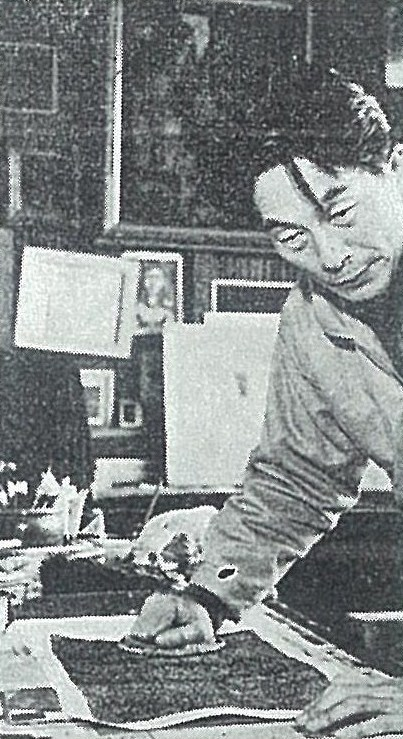 Hideo Hagiwara is a Japanese painter and printmaker.